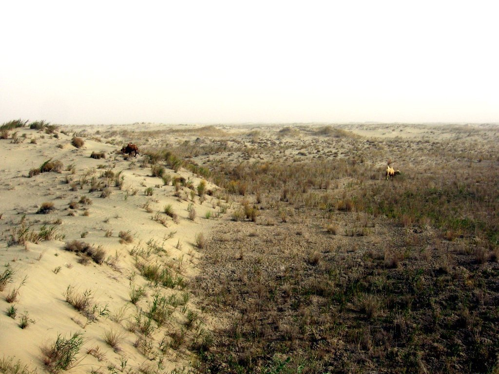 Landscape in Taklamakan desert near Yarkand, Autonomous Region of Xinjiang, China. Digital photo taken by author and post-processed with GIMP.